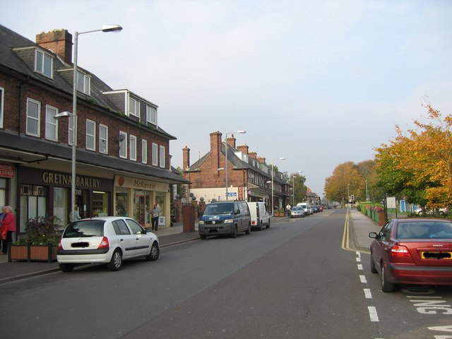 Main Street Gretna The yellow building is the Post Office on Central Ave.